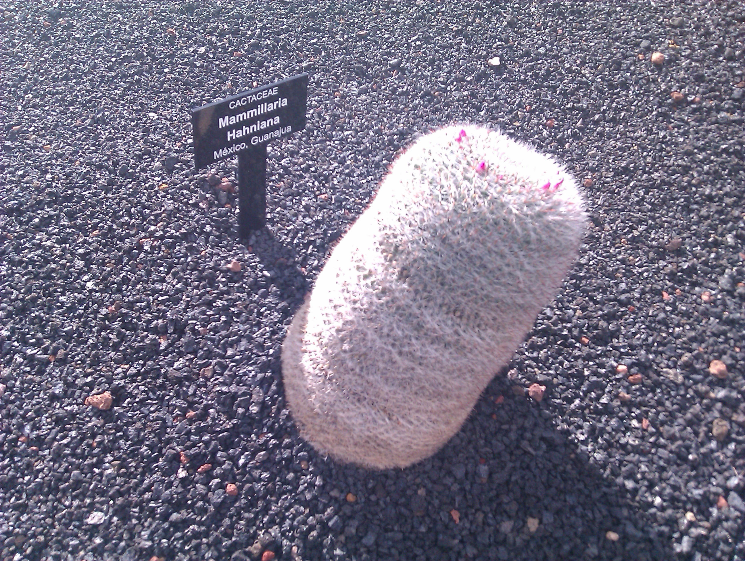 Photo taken at Jardín de Cactus, Lanzarote, Spain. Mammillaria hahniana.